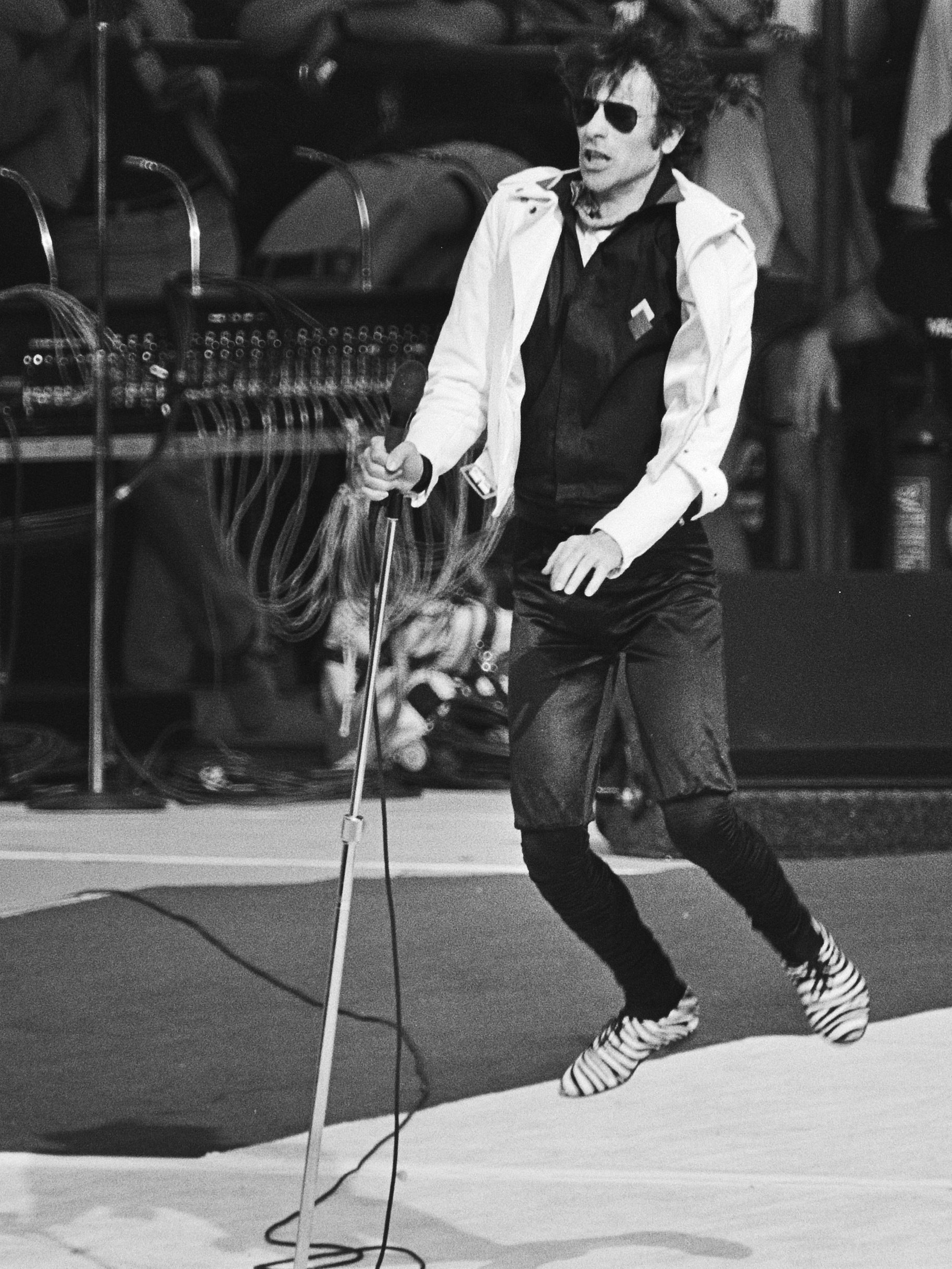 Peter Wolf jumping during a concert of the J. Geils Band in Rotterdam (the Netherlands), June 1982